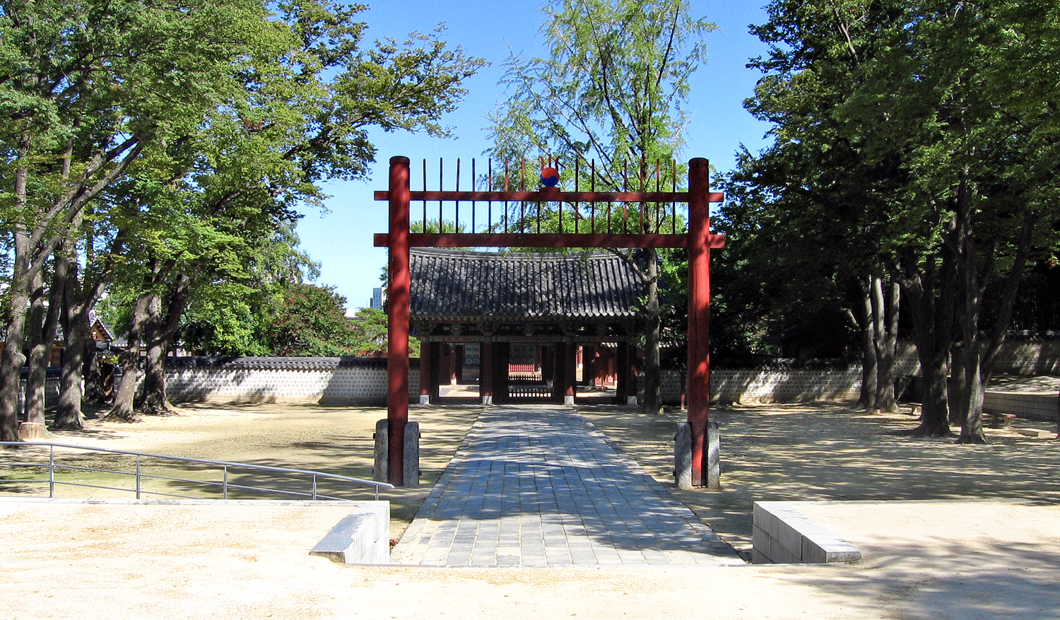 This is an edited copy of Image:Jeonju Gyeonggi-jeon.jpg. Please see there for more information about it.